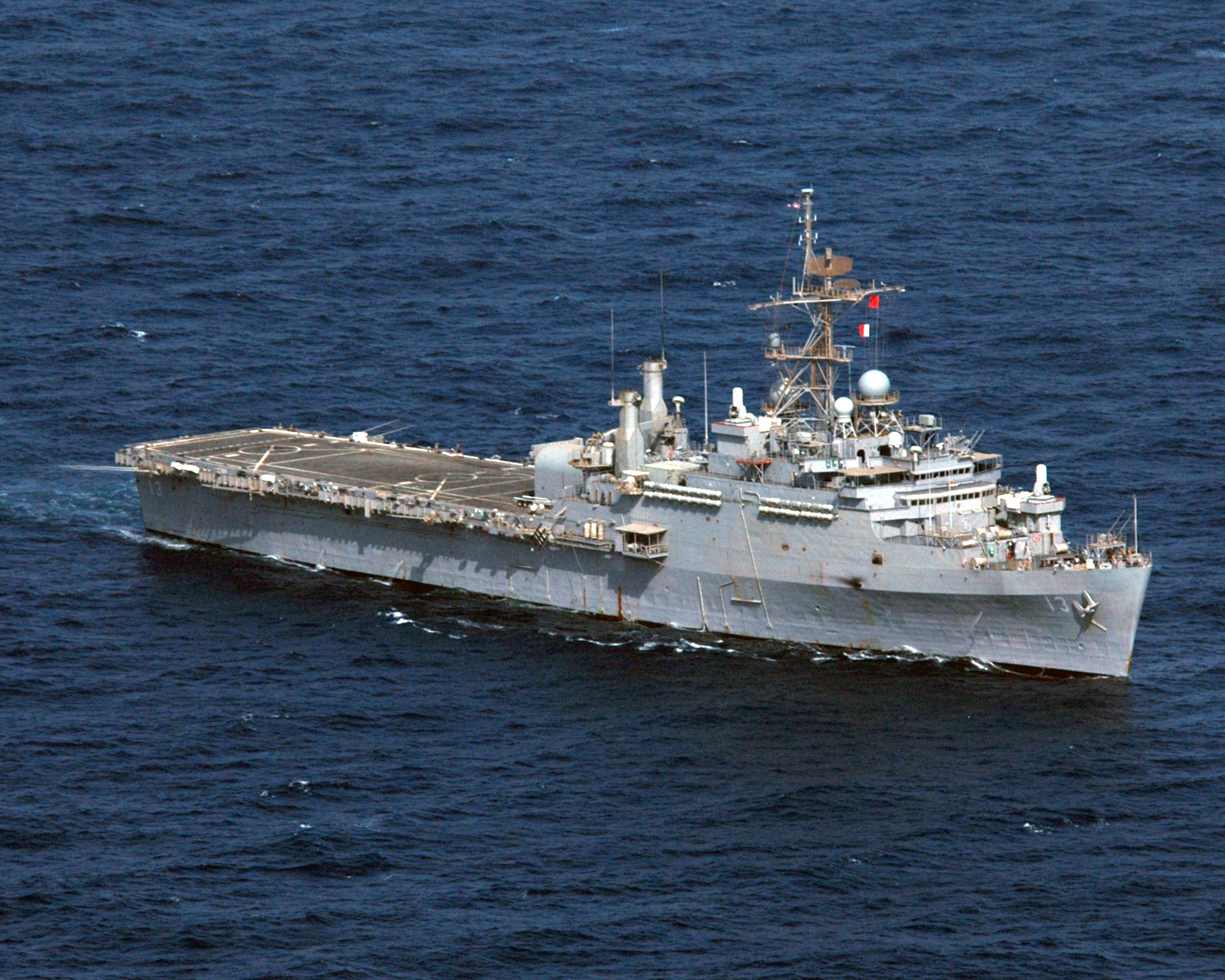 The U.S. Navy The amphibious transport dock ship USS Nashville (LPD-13) underway patrolling the Arabian Sea on 31 August 2006 as part of the Iwo Jima Expeditionary Strike Group (ESG). Nashville deployed from her homeport of Norfolk, Virginia (USA), beginning a regularly scheduled six-month deployed in support of maritime patrol operations and the global war on terrorism.